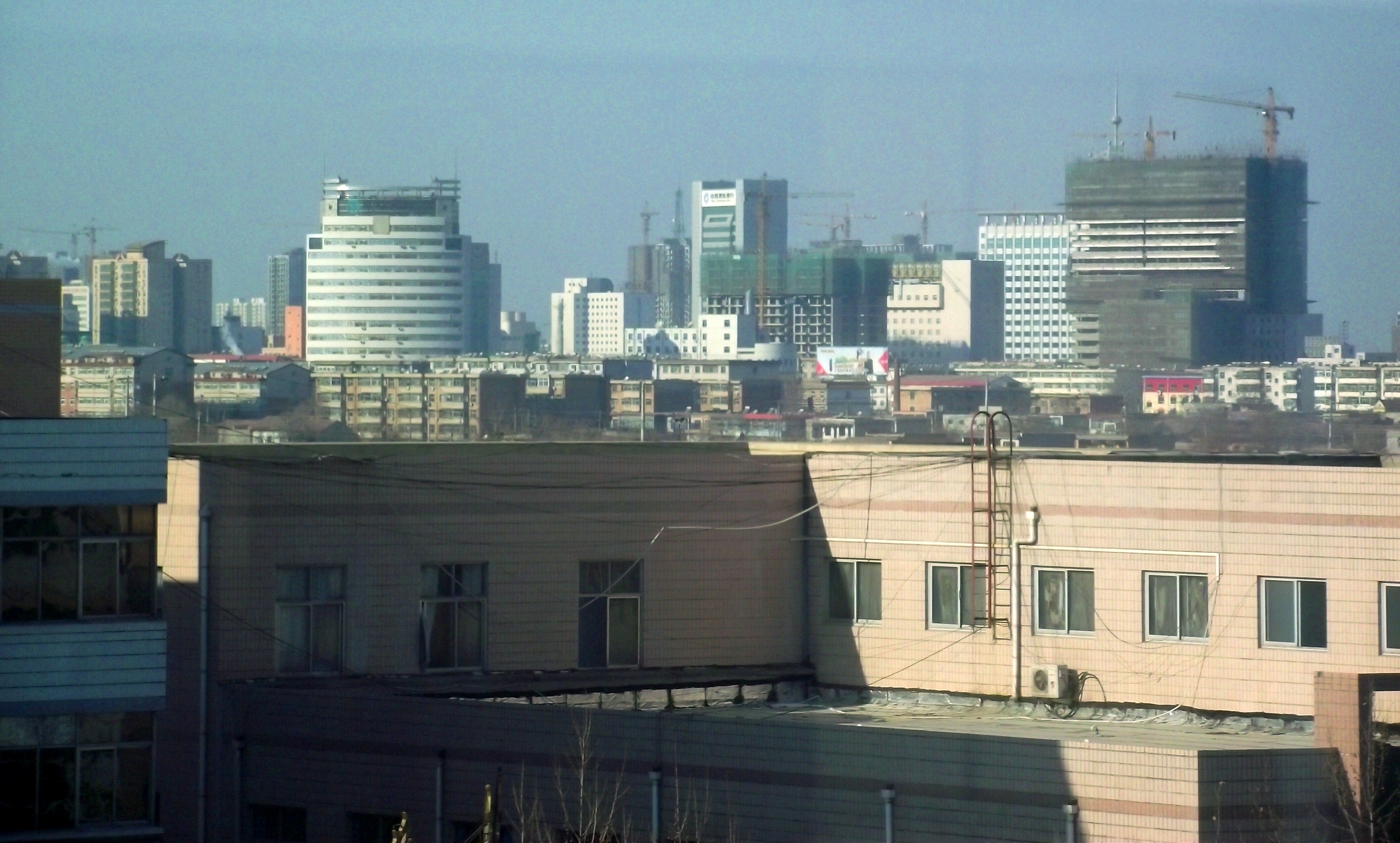 The skyline of Hengshui,Hebei.From Mingzhi Building,Hengshui High School,Hebei.